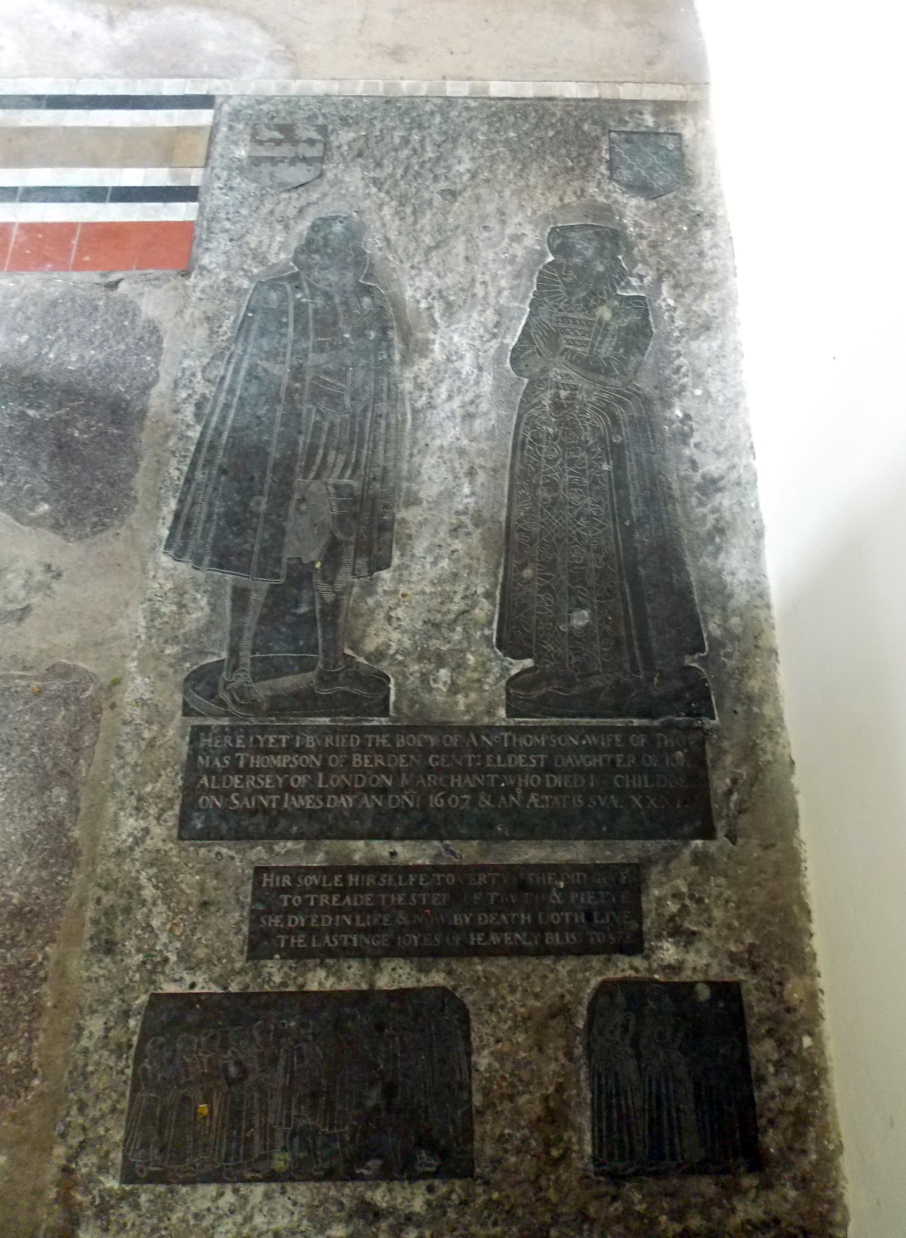 Berden St Nicholas interior An Thompson memorial brass